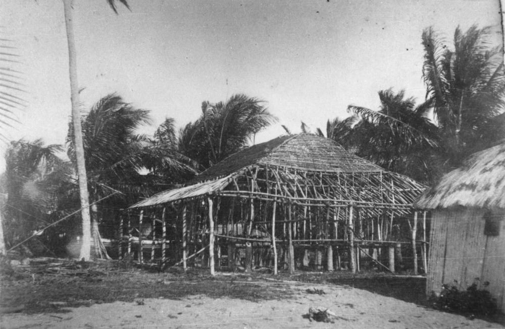 Native house being constructed on Darnley Island, Torres Strait, 1899 Darnley Island is also known as Erub. This image shows the house during the framing construction.